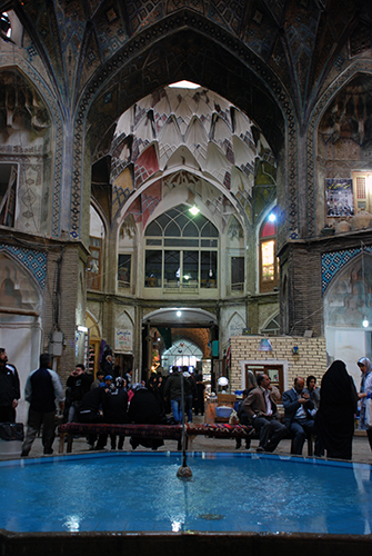 Kashan Grand Bazaar